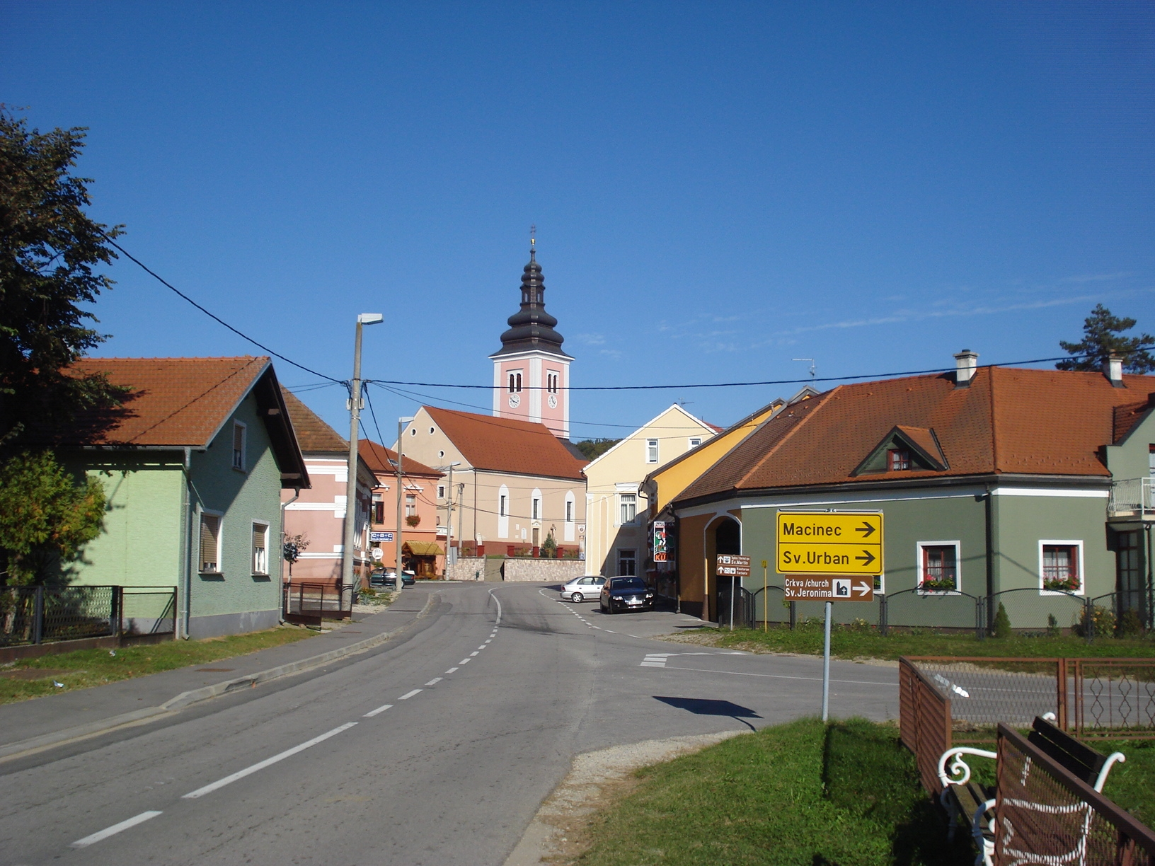 Štrigova, Medjimurje County, Croatia - main street